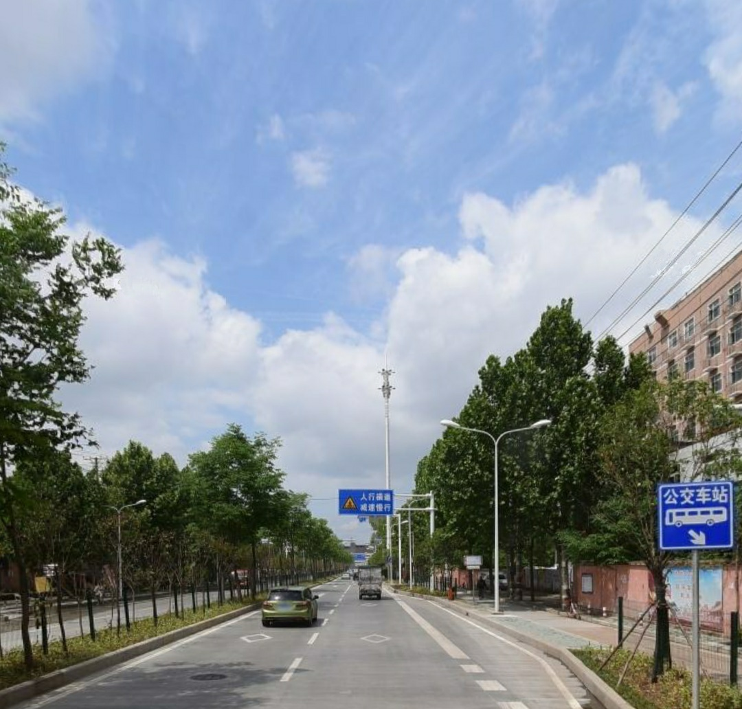 Zhanqian Road,Changqian Subdistrict.